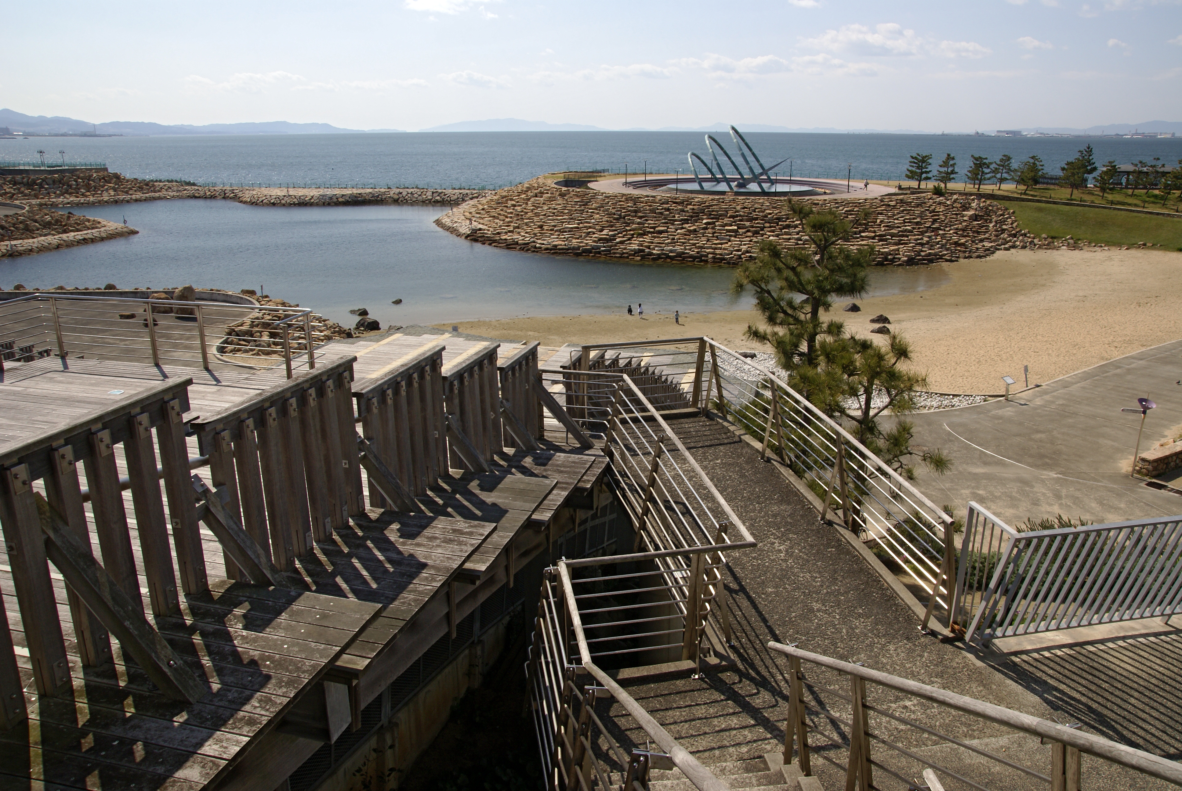 Rinku Park in Izumisano, Osaka prefecture, Japan